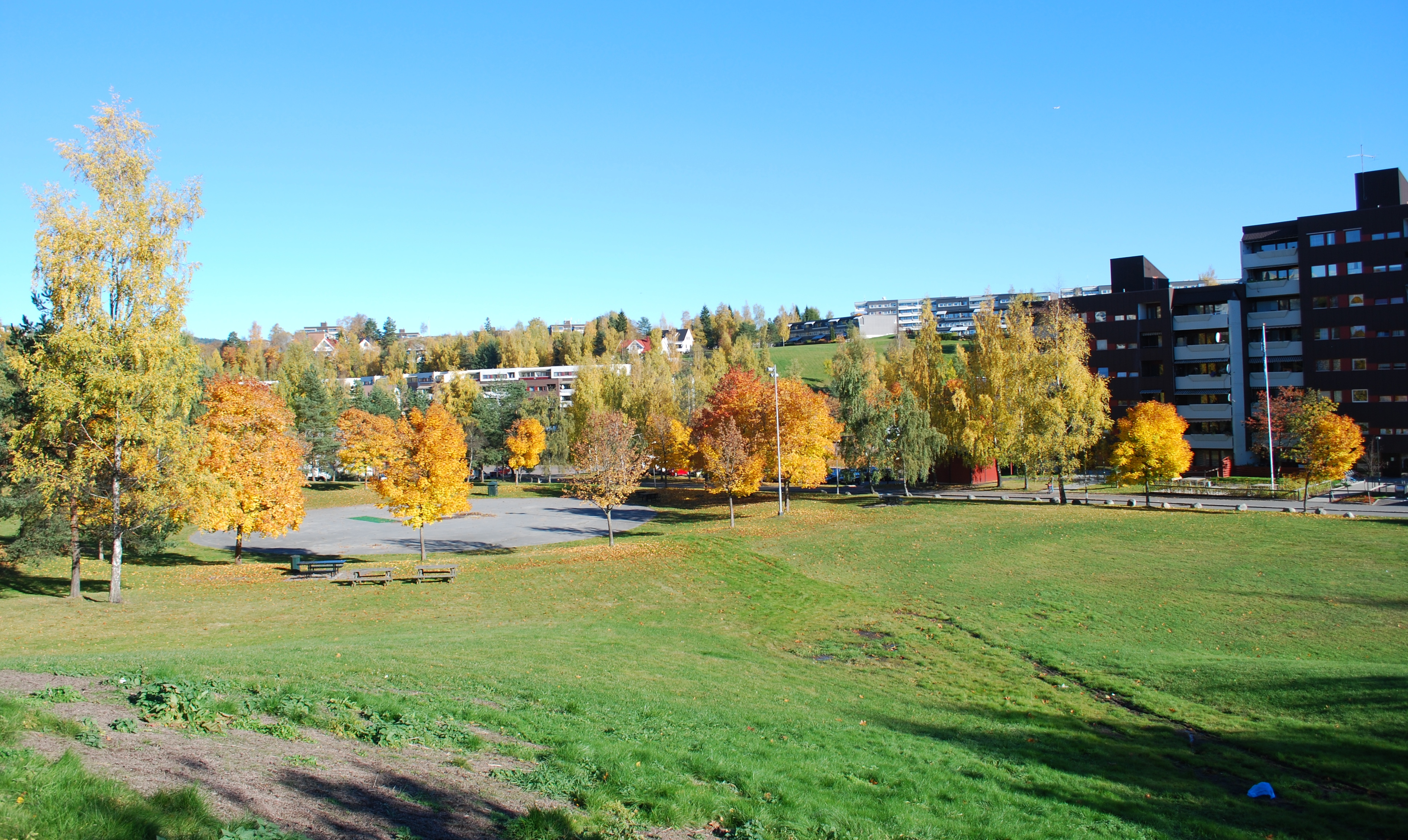 Verdensparken på Furuset, Oslo. Den fremtidige Verdensplassen, oktober 2013